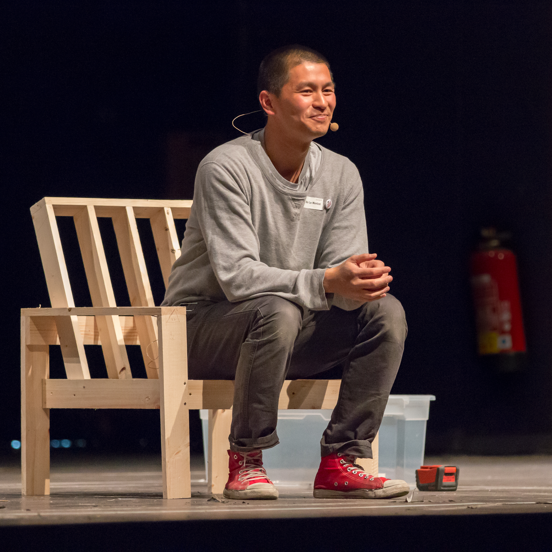 Van Bo Le-Mentzel at the See-Conference 2015 in the Schlachthof Wiesbaden